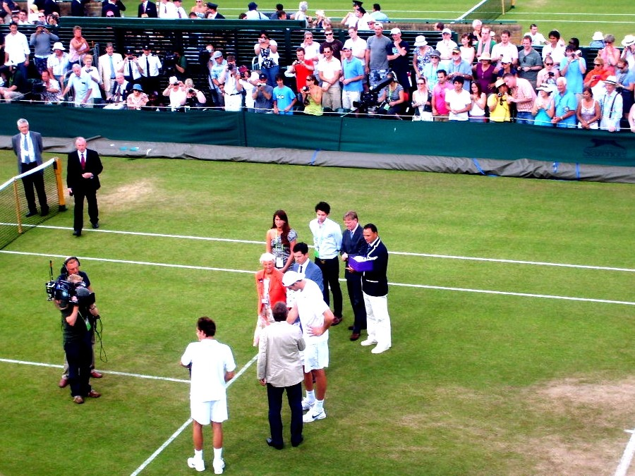 Ceremony after Isner-Mahut match, Wimbledon 2010.